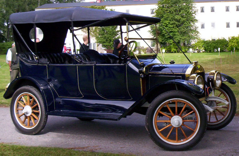 Maxwell Model 24-4 Touring 1913